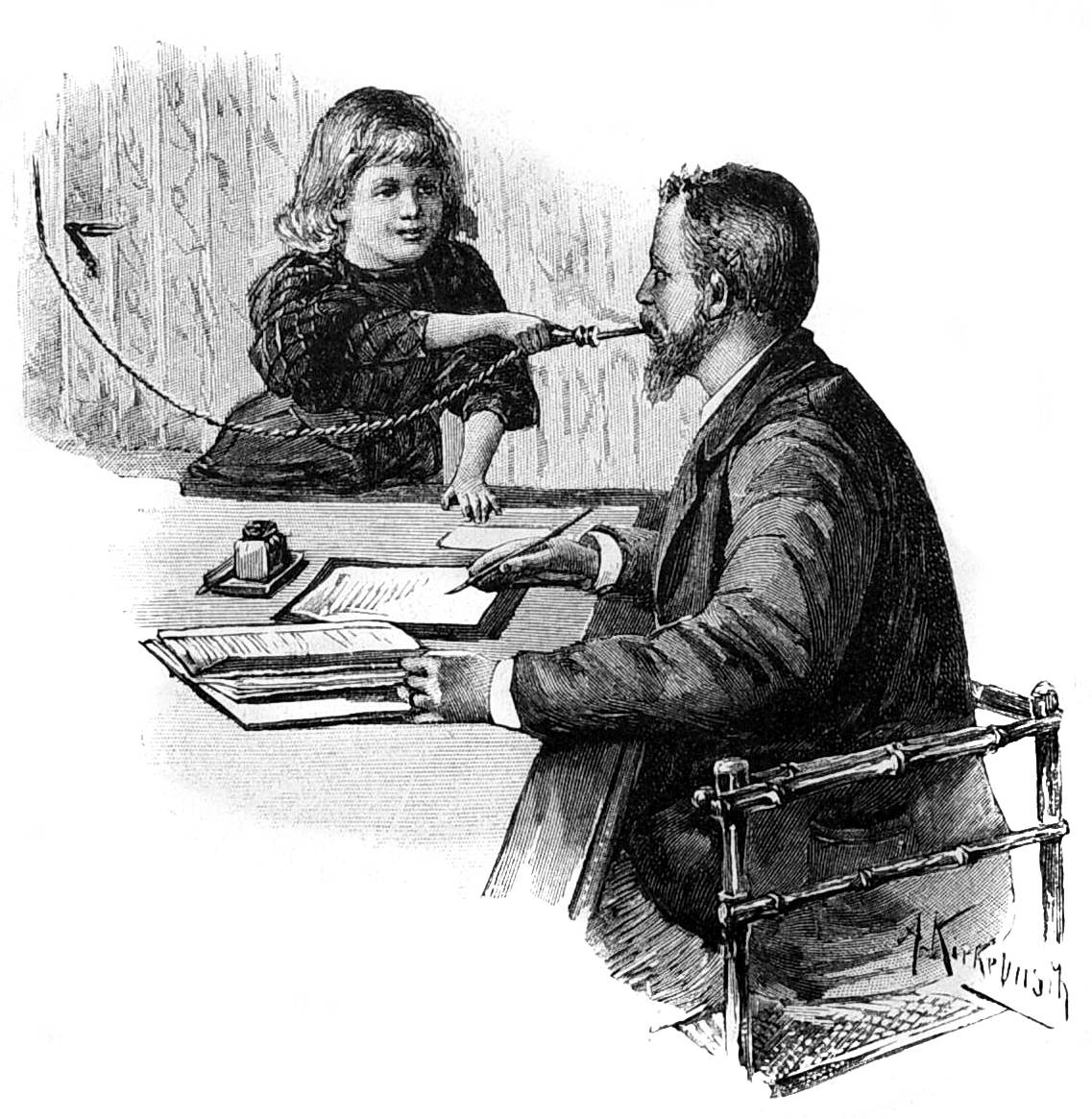 caption: "Elektrischer Cigarrenanzünder."